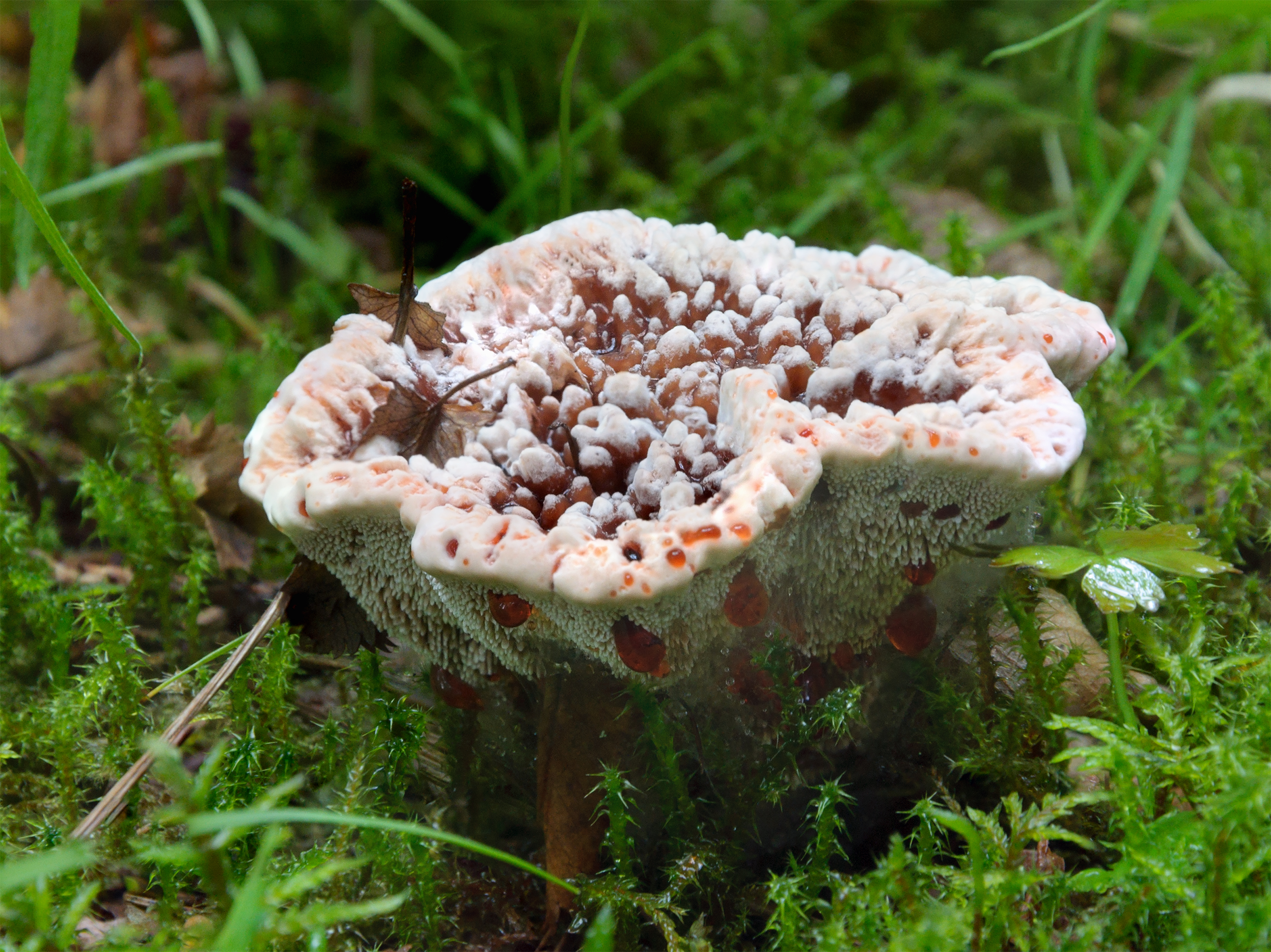 Hydnellum ferrugineum, Glières Plateau, Haute-Savoie, France. Identified on image by L. Chavant, Association mycologique de Toulouse.